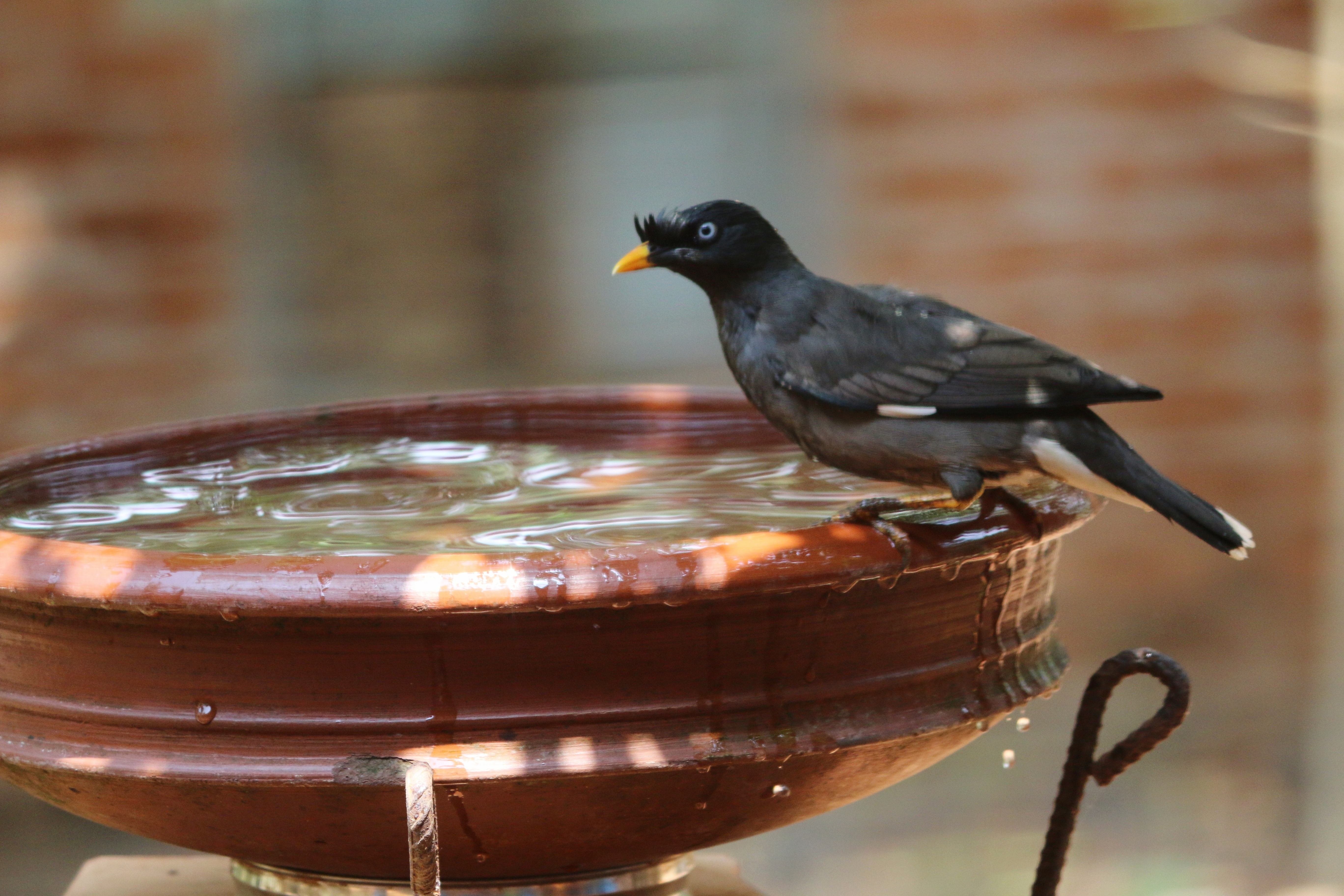 Jungle myna bird in bird bath